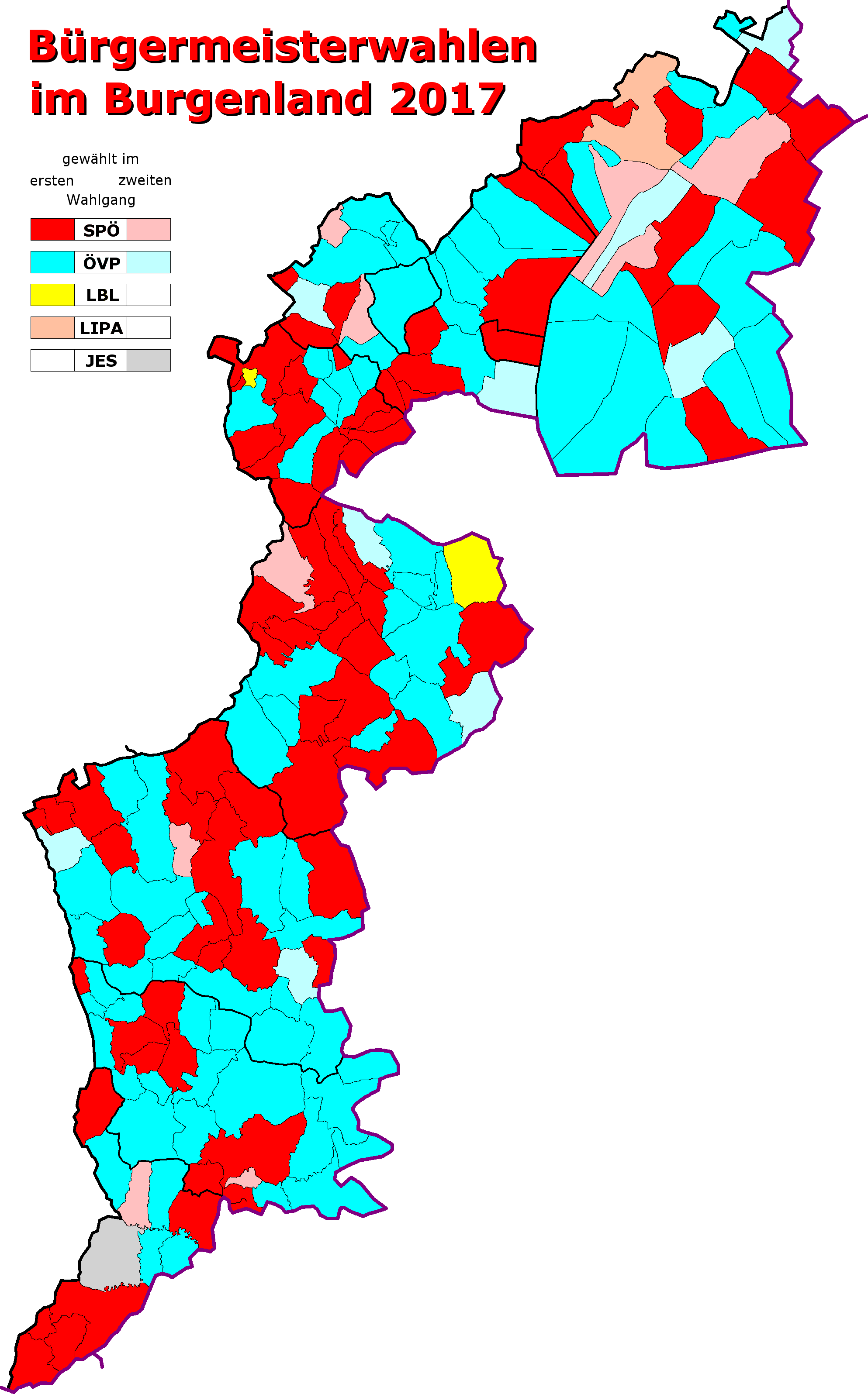 Local elections in Burgenland 2017 - major election results, shortlist 2017-10-29